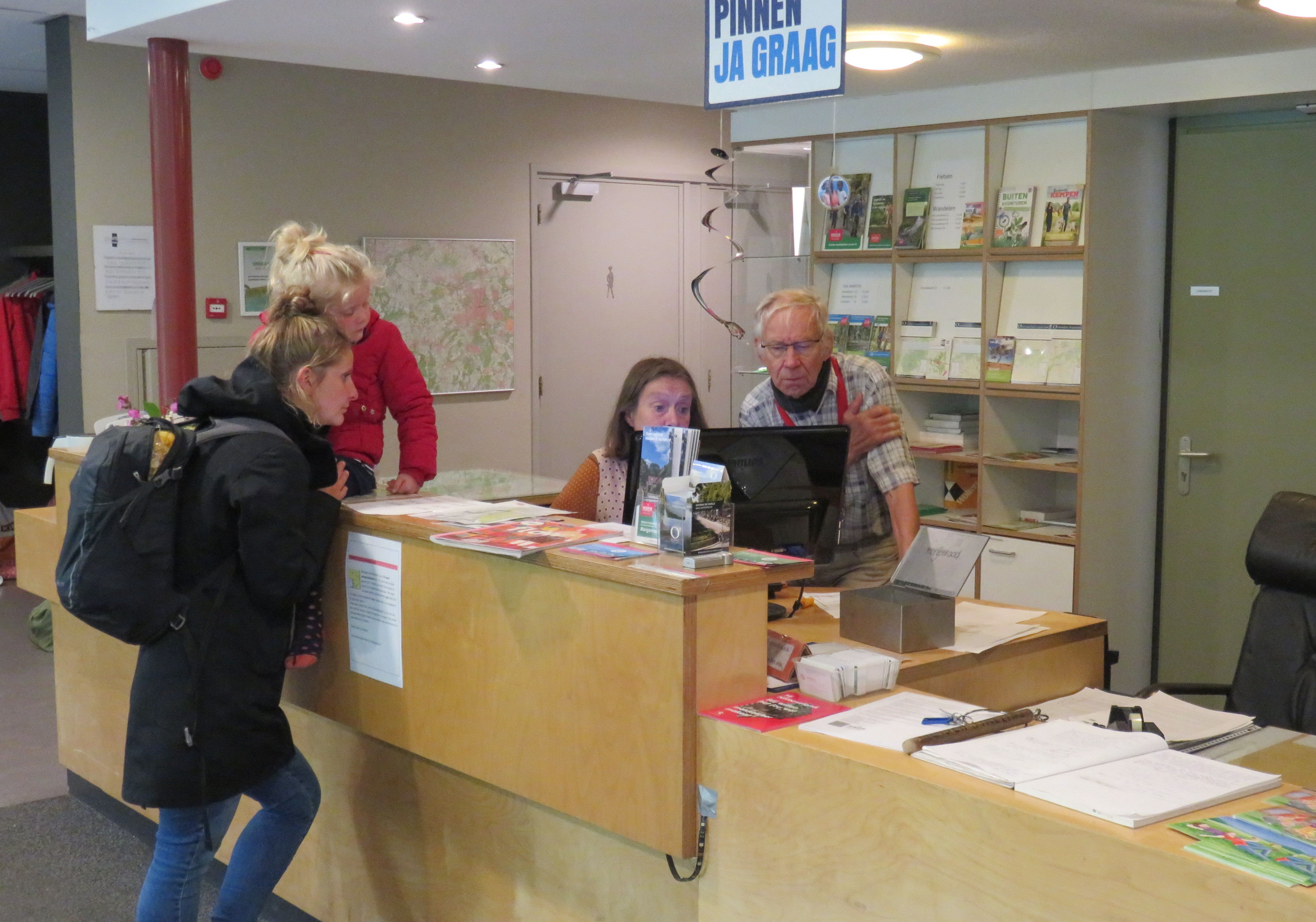 "Morgenrood" in Oisterwijk; House from the international organisation Friends of Nature. Volunteers run the reception